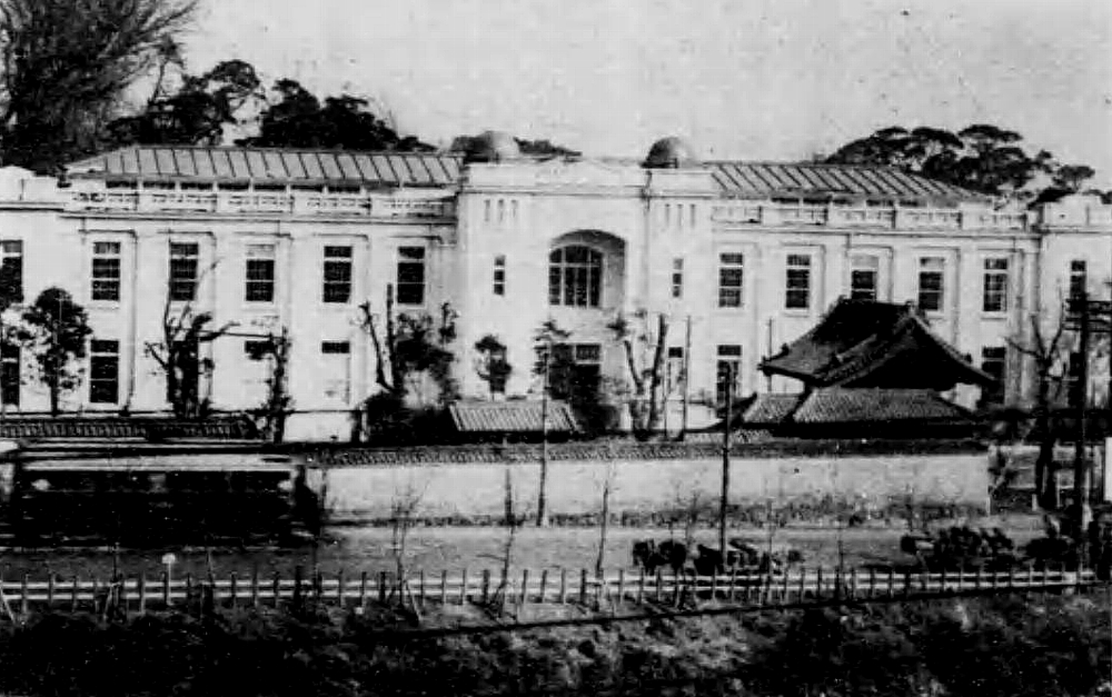 Tokyo Educational Museum (Past of National Museum of Nature and Science) in 1920.